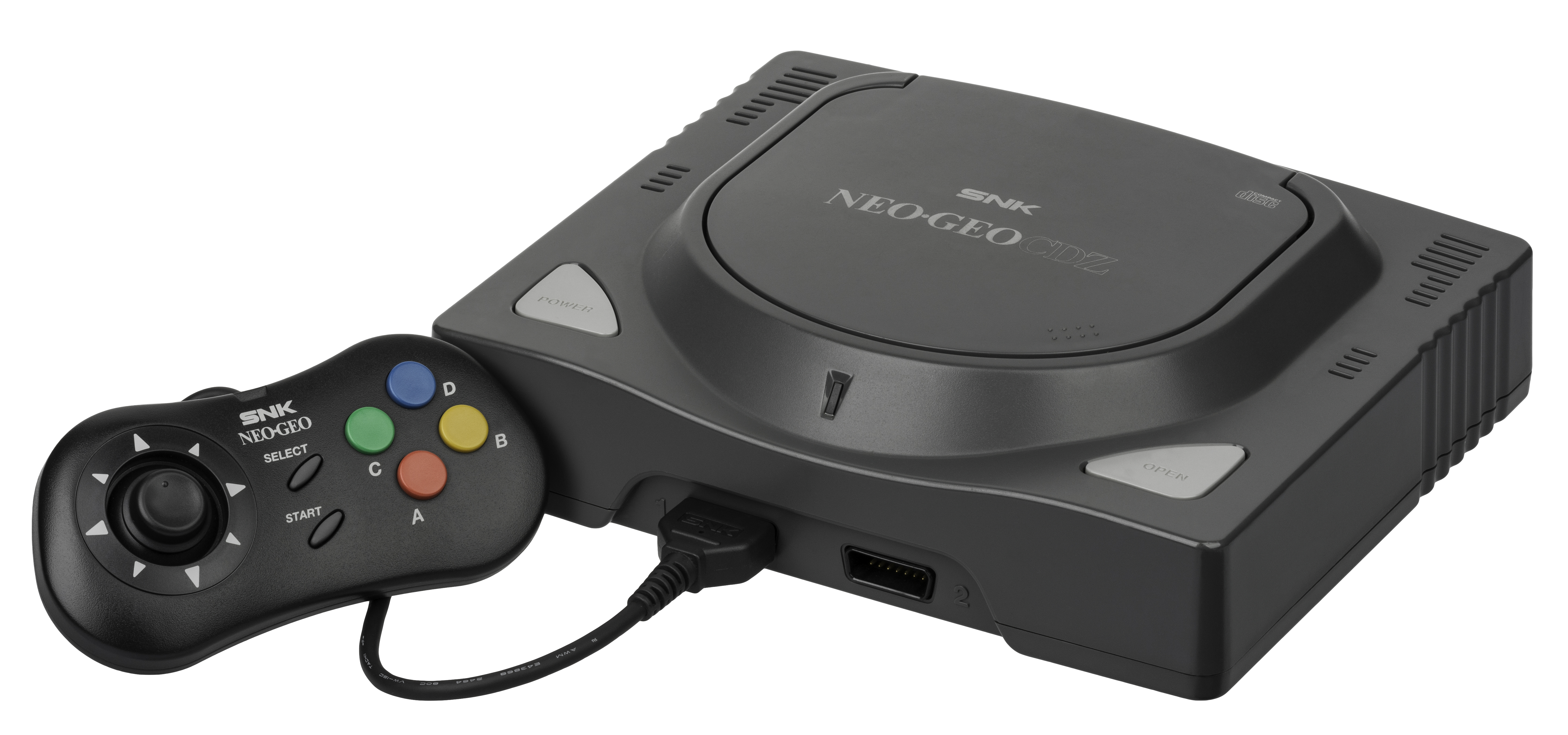 The Neo Geo CDZ, a video game console released by SNK in Japan in 1995. This is the CDZ model, the third and last version of the Neo Geo CD hardware and was only released in Japan. The Neo Geo CD was a conversion of the original Neo Geo AES hardware into a system with cheaper, more accessible media. The original AES used large cartridges that cost hundreds of dollars each, whereas this model used common CDs that cost pennies to produce. The system also included a more standard gamepad for the pack-in controller.